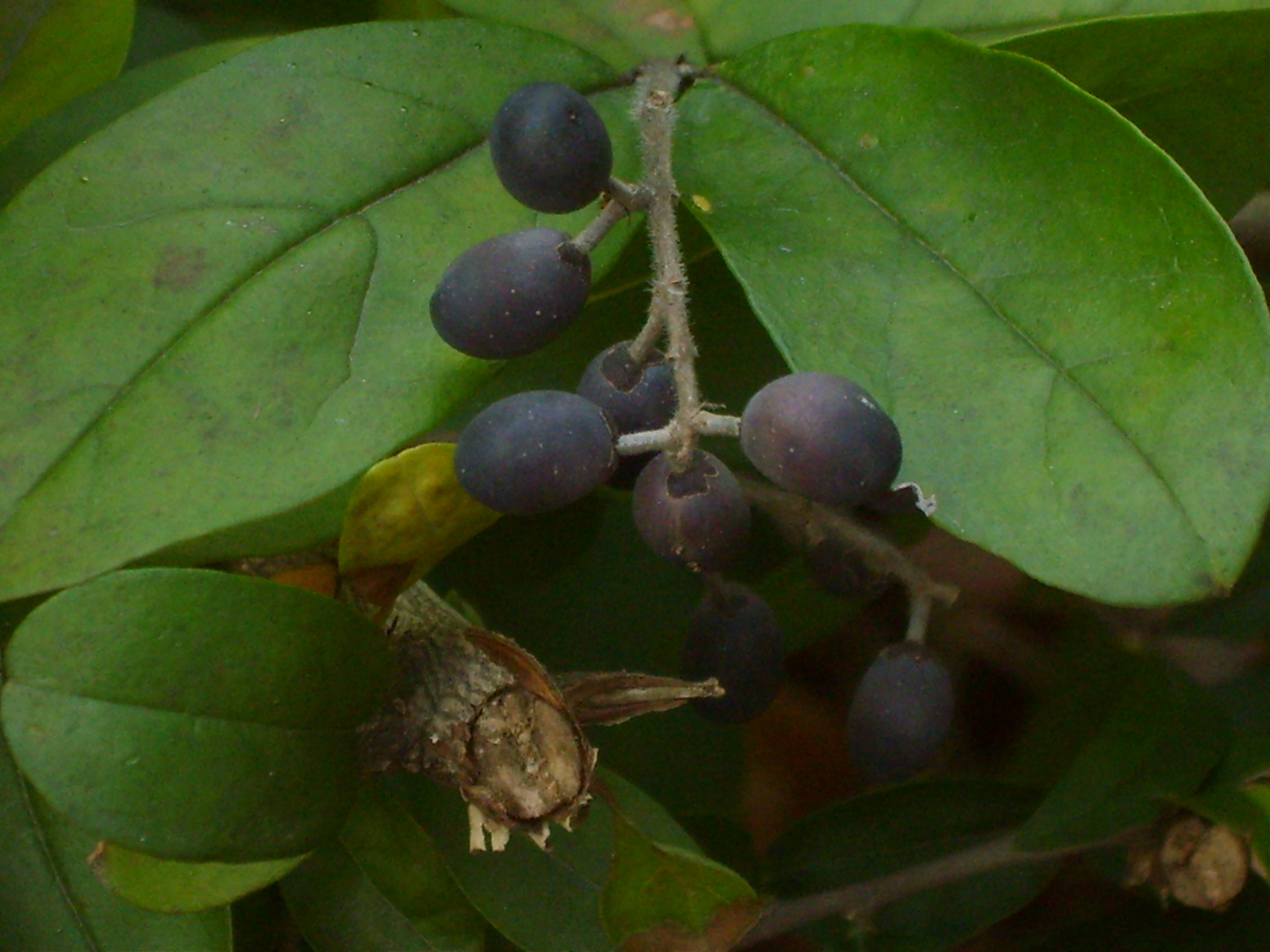 Ligustrum obtusifolium's fruits